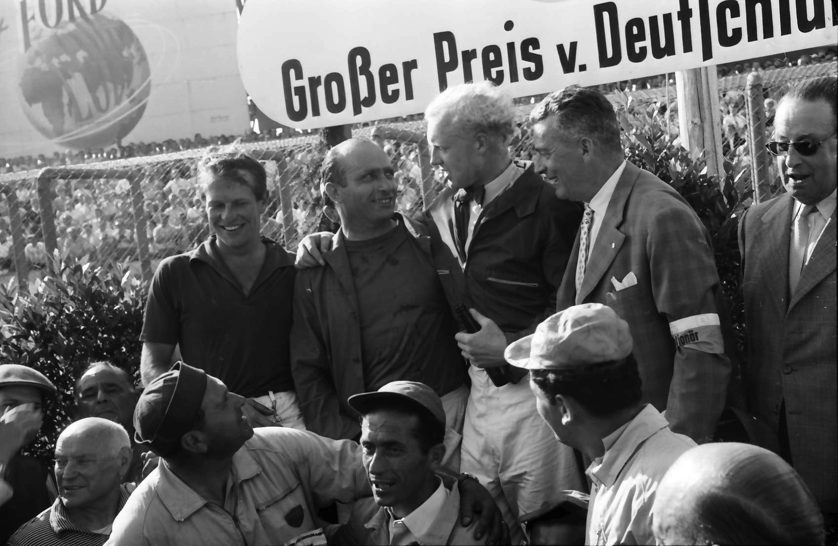 The top three finishers in the 1957 German Grand Prix on the podium following the race. From the left of the podium group are third-placed Peter Collins (Ferrari), race winner Juan Manuel Fangio (Maserati), and second-placed Mike Hawthorn (Ferrari).